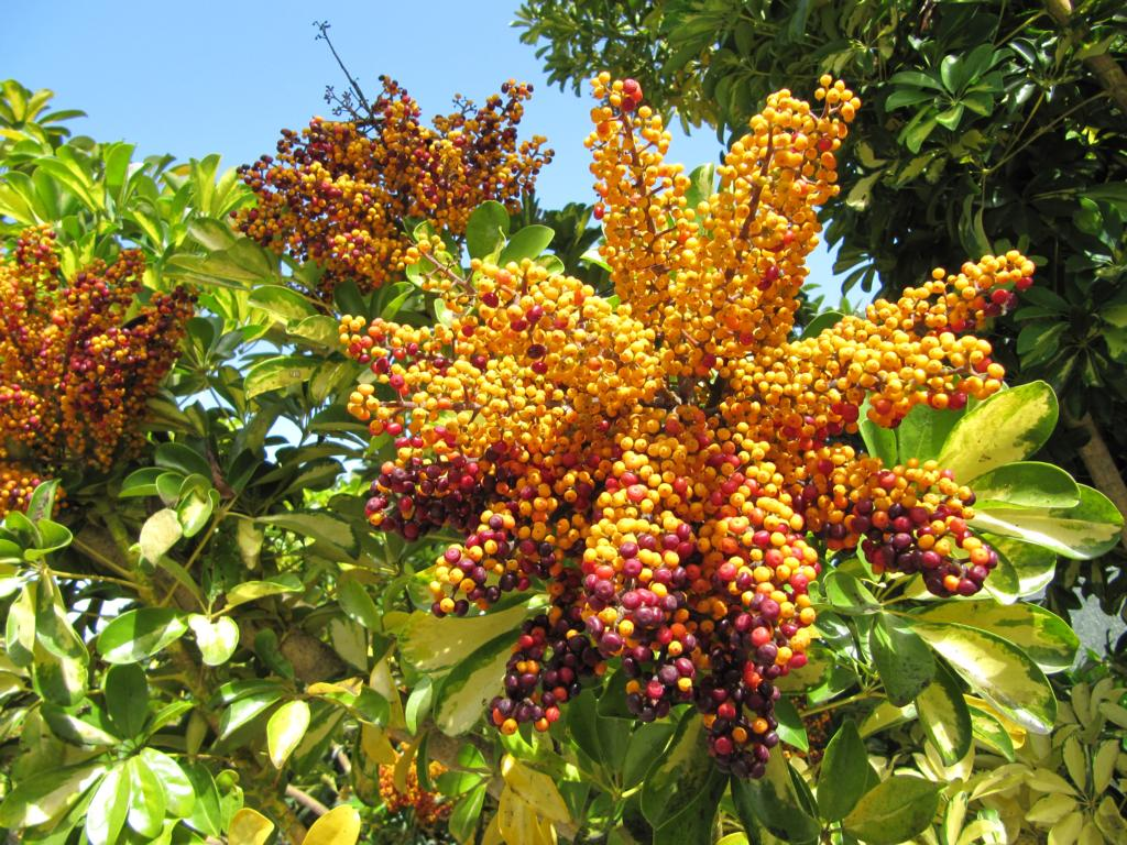 Schefflera, maybe Schefflera arboricola, Gran Canaria